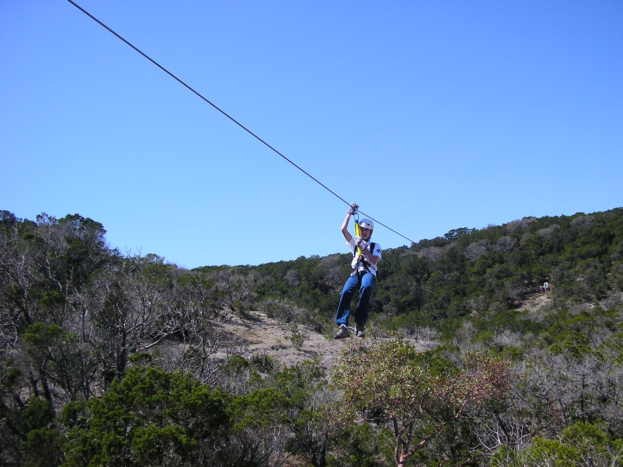 Wimberley zip lines- a recreational destination in Wimberley, Tx